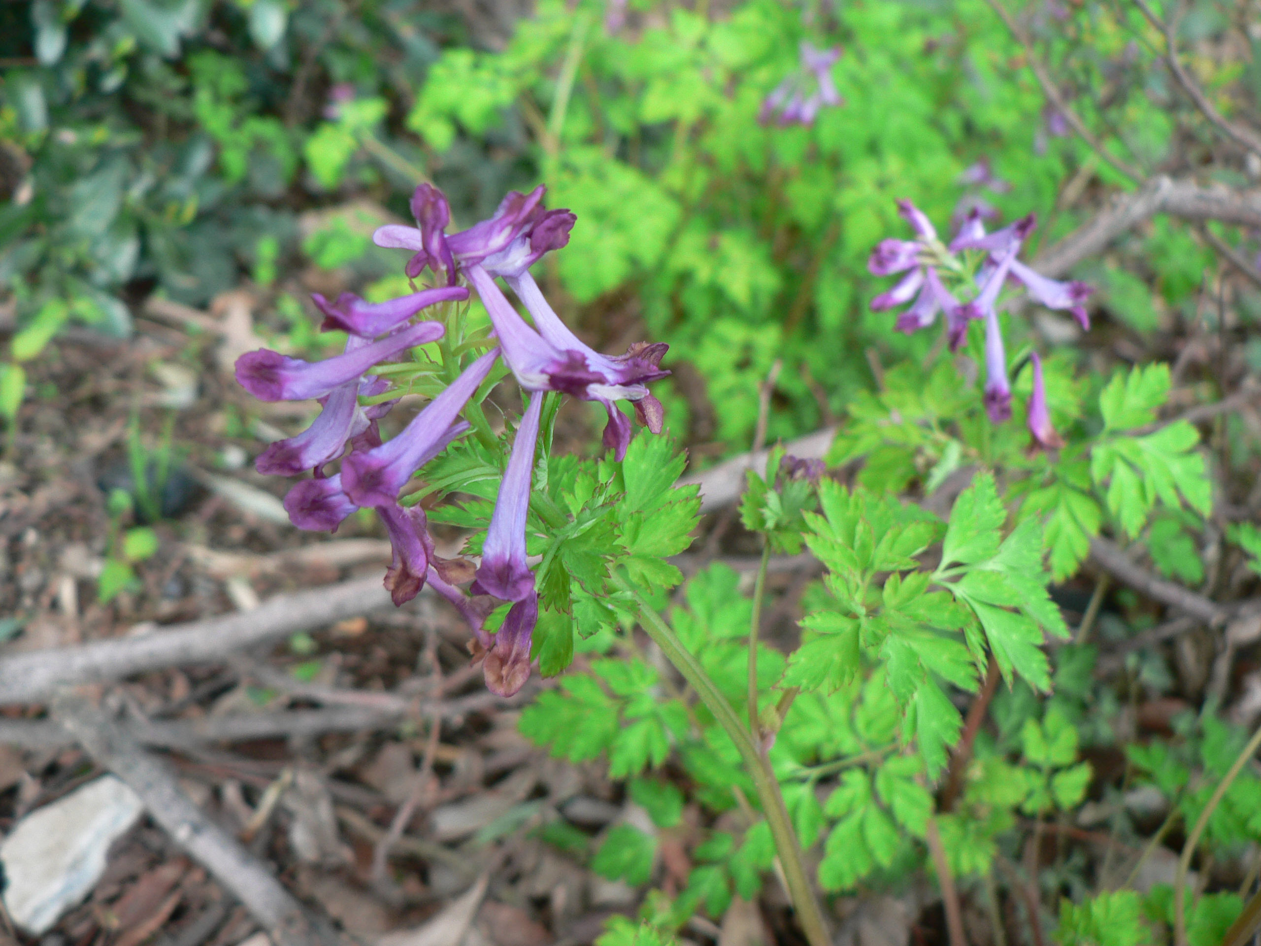 Corydalis incisa Shot by myself on Apr. 22, 2006.